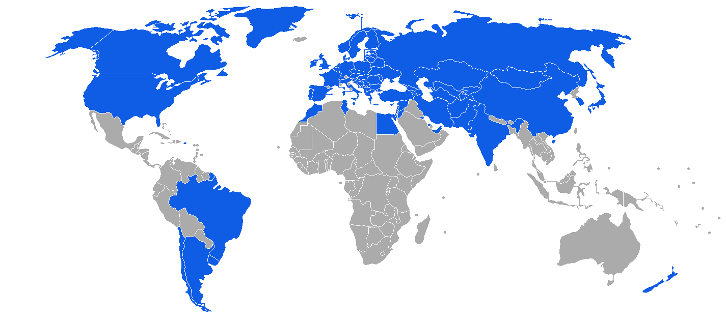 A map of members of the International Road and Transport Union (IRU). Since the base is GFDL, this map is too.